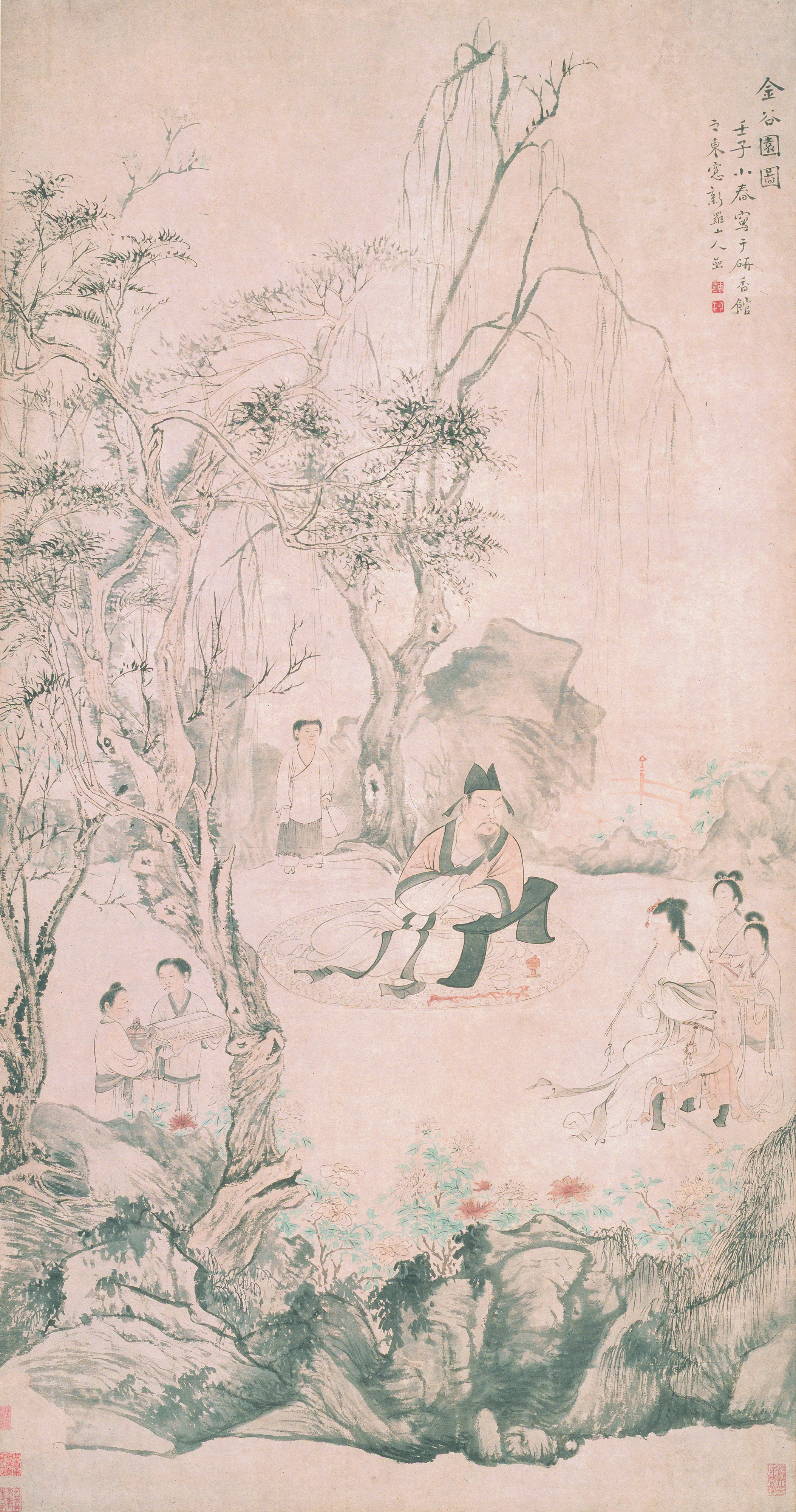 "Golden Valley Garden was the palatial country villa of Shi Chong, a wealthy man of the Western Jin dynasty in war-torn third century China. The Golden Valley Garden was the setting for many of Shi Chong’s opulent gatherings and banquets. His women would sing and dance for the guests, but if any of them displeased him, he would have them executed on the spot. Although cruel, Shi Chong was also deeply cultured. Shi Chong loved one woman, called Green Pearl. Widely celebrated for her beauty, she was also an accomplished flautist. In the painting, he listens intently to her playing. Both came to a tragic end, however." —Chester Beatty Library